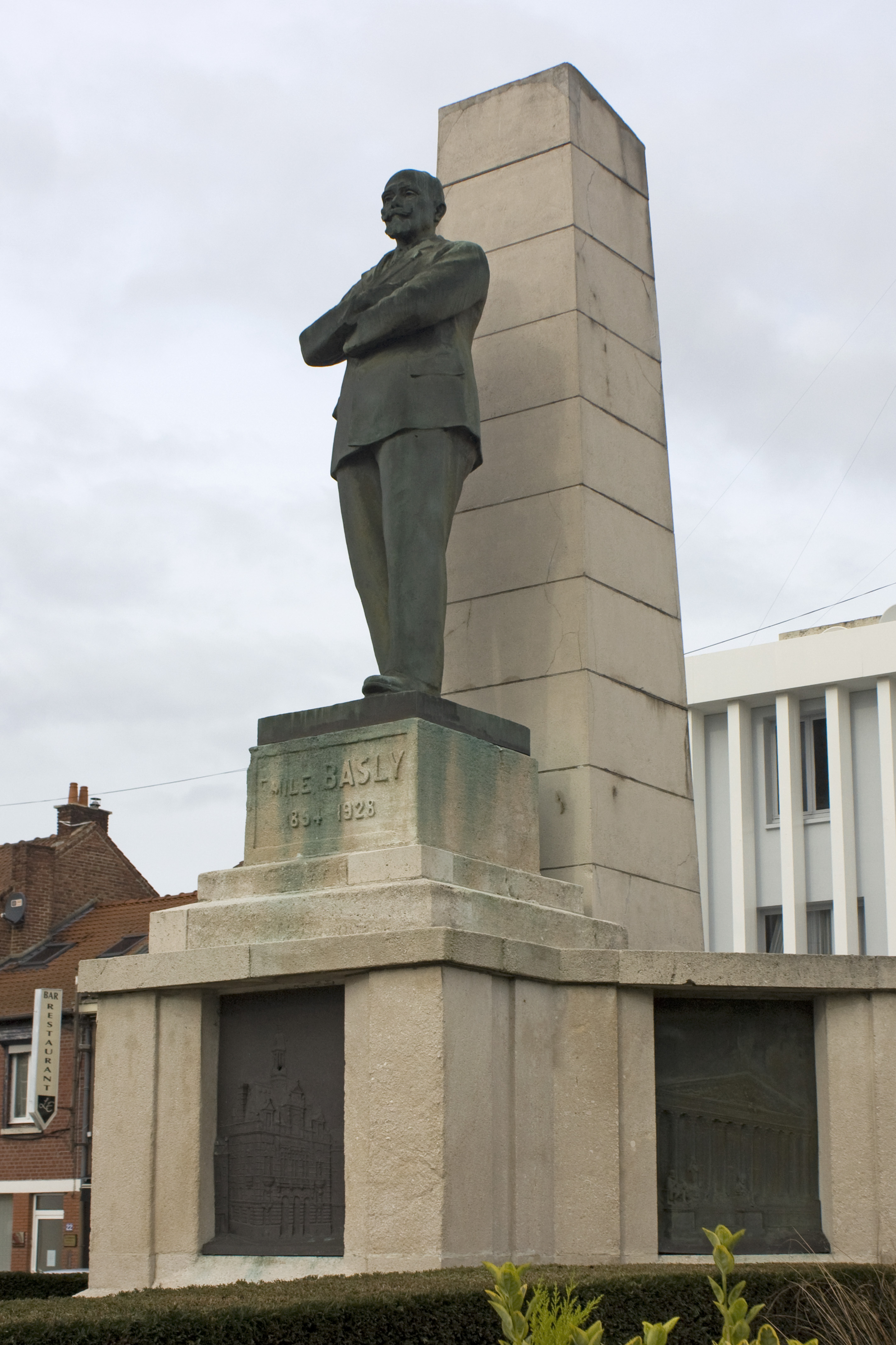 Monument to Émile Basly. This place is a UNESCO World Heritage Site, listed as Bassin minier du Nord-Pas de Calais.